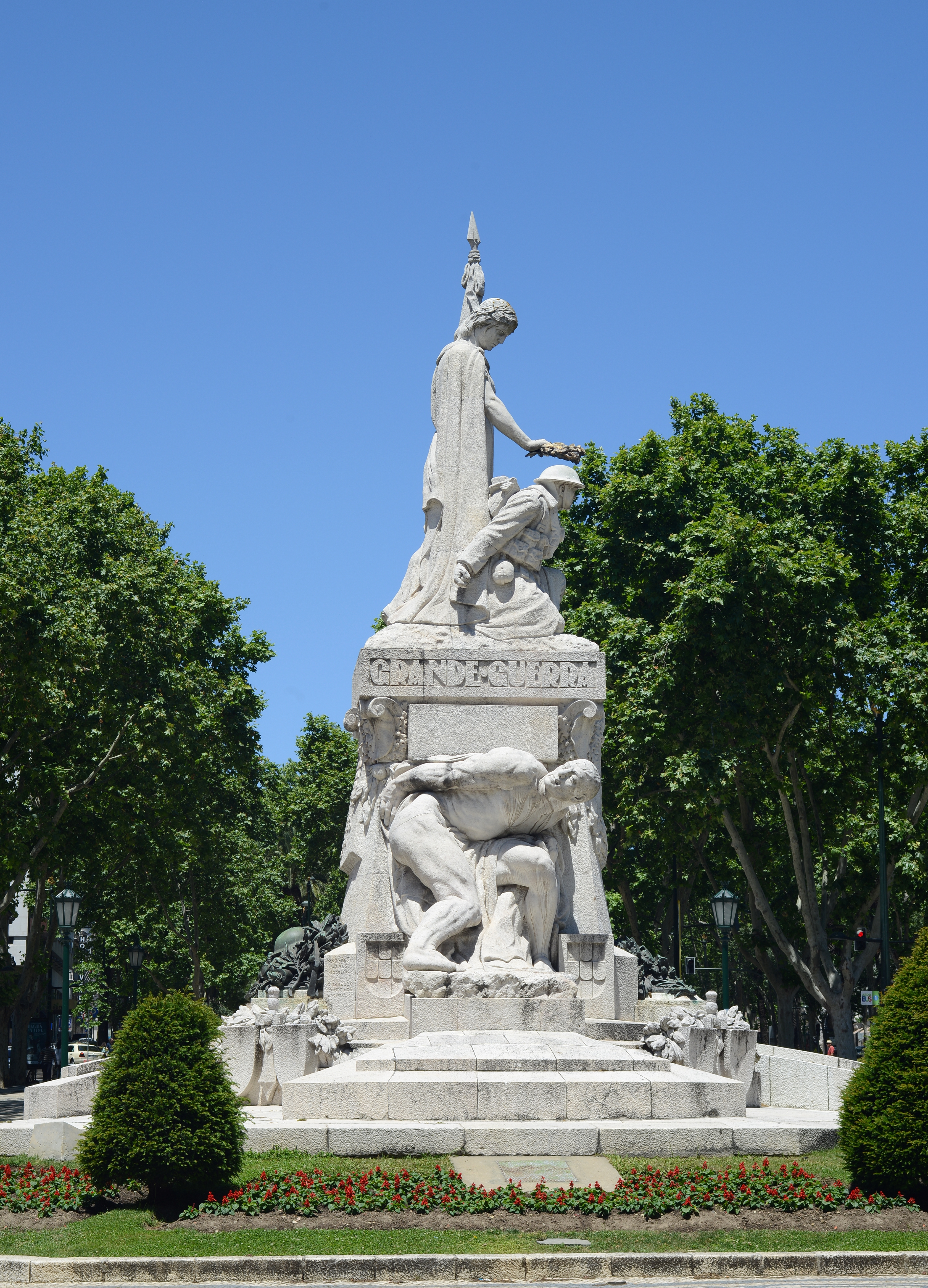 Monument to the Portuguese dead in the First World War. Avenida da Liberdade, Lisboa, Portugal. It was finished in 1931. The project is by the architects Guilherme Rebelo de Andrade and Carlos Rebelo de Andrade; and the sculptures by Maximiano Alves